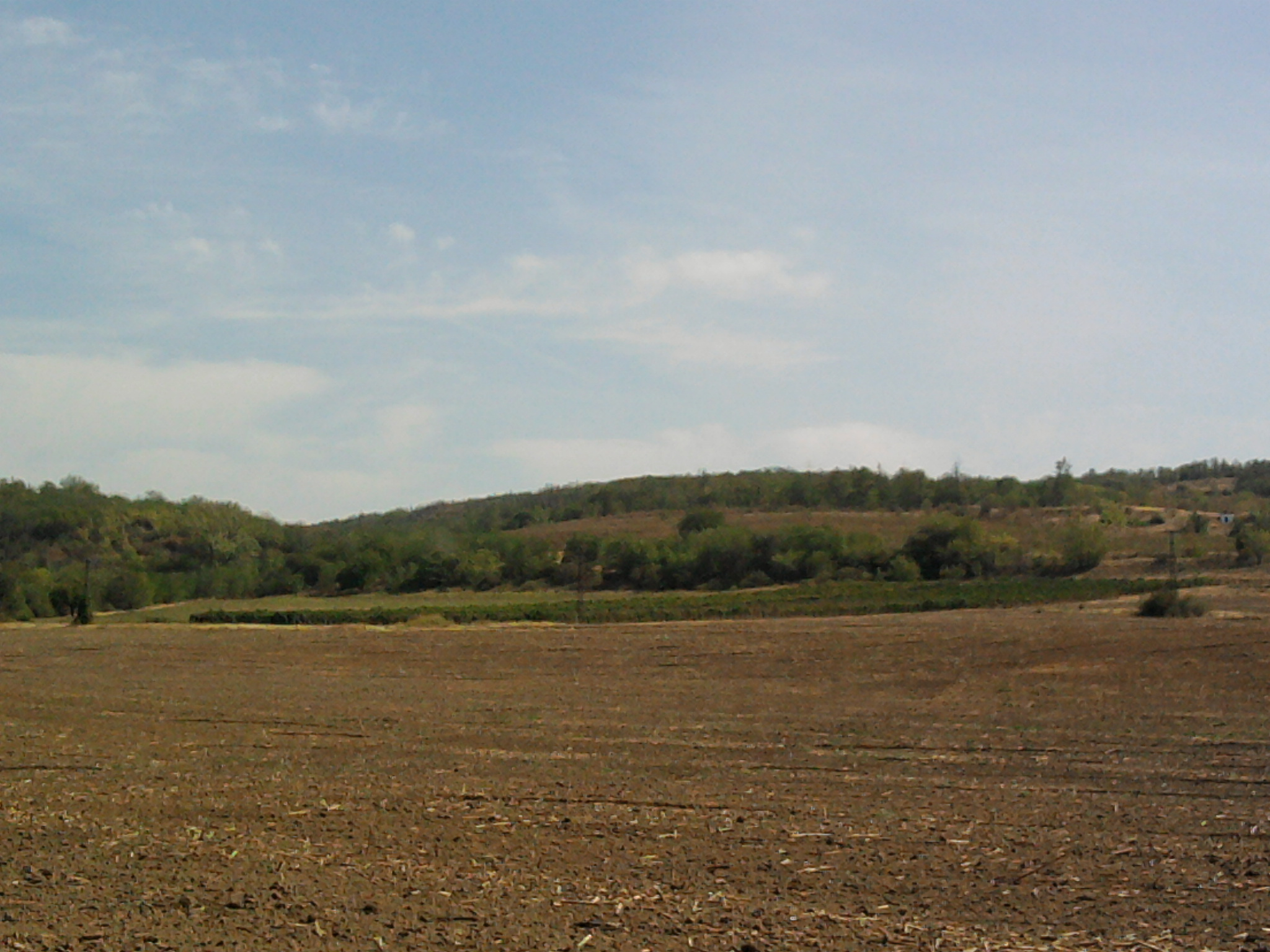 Sveta voda Novo selo, Vidin